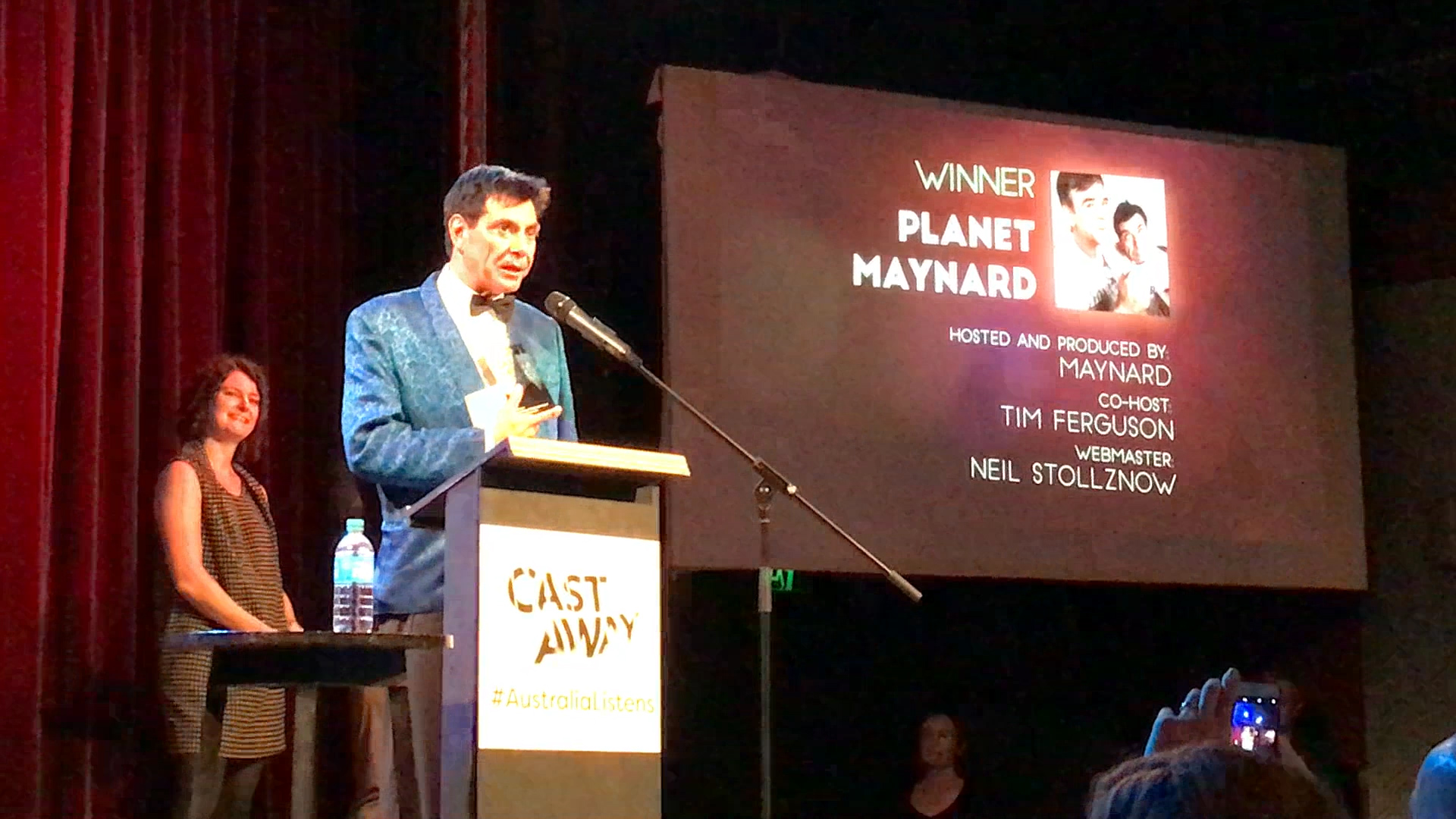 Maynard wins Castaway Podcast Award 2017 for Comedy & Entertainment.